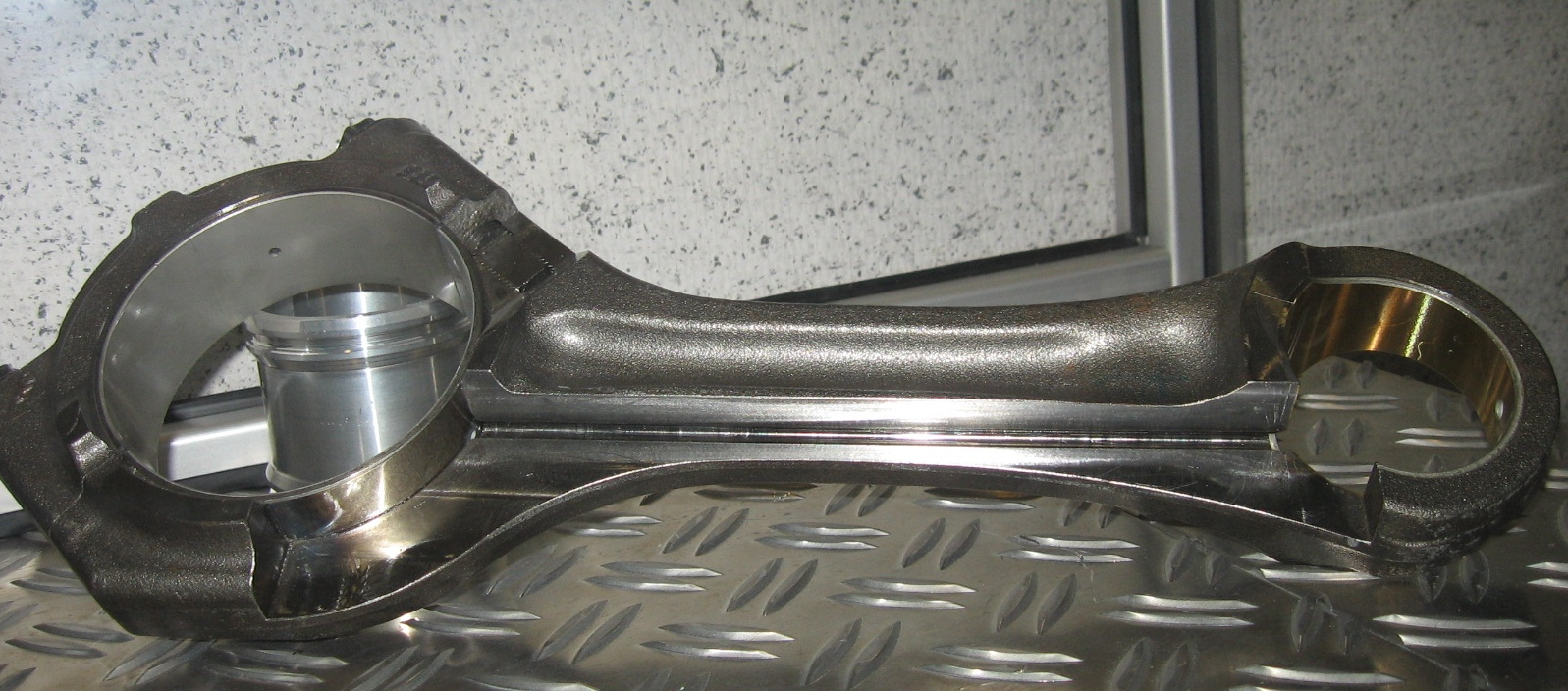 Connecting rod